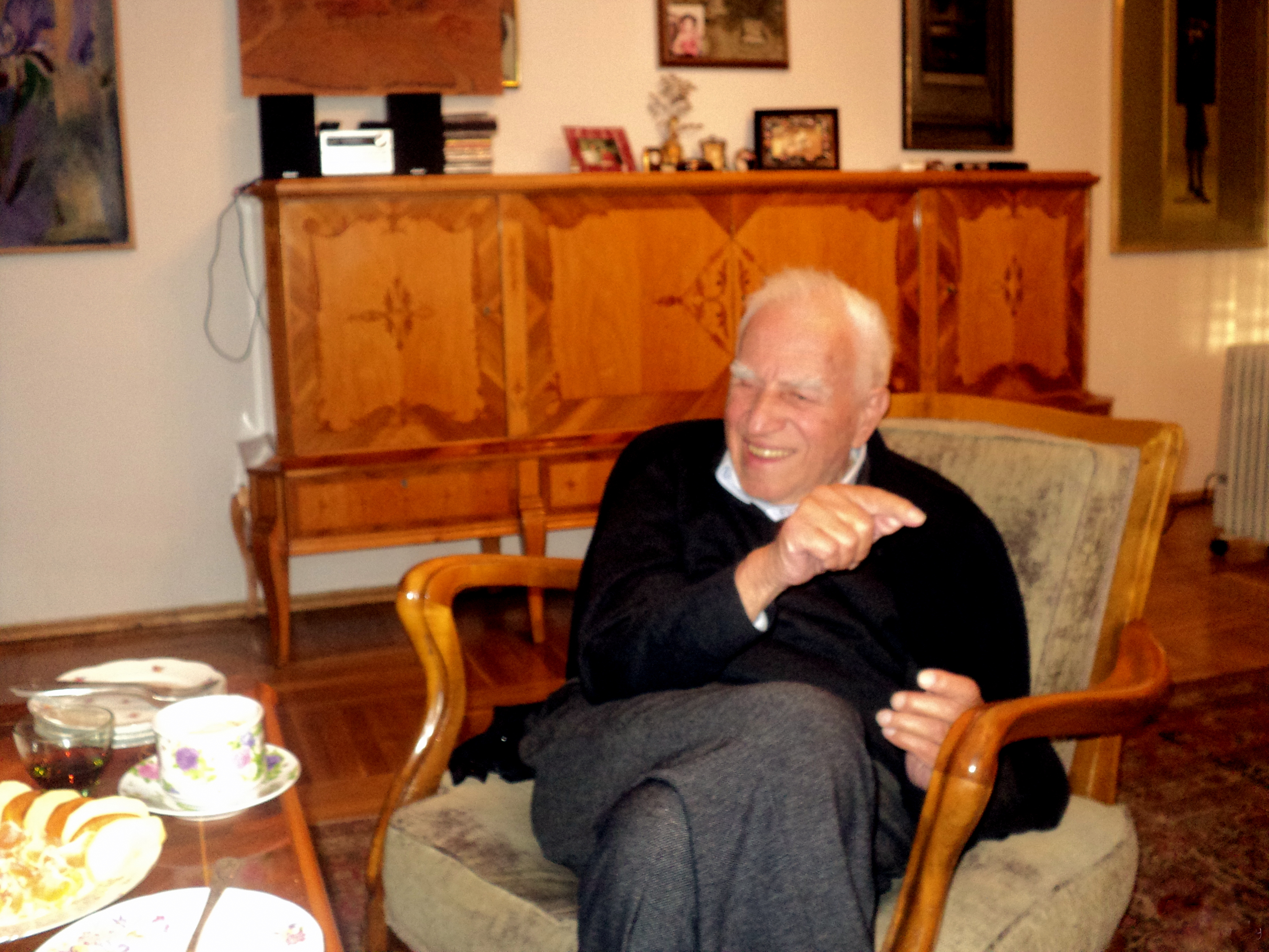 Jim P. Torossian